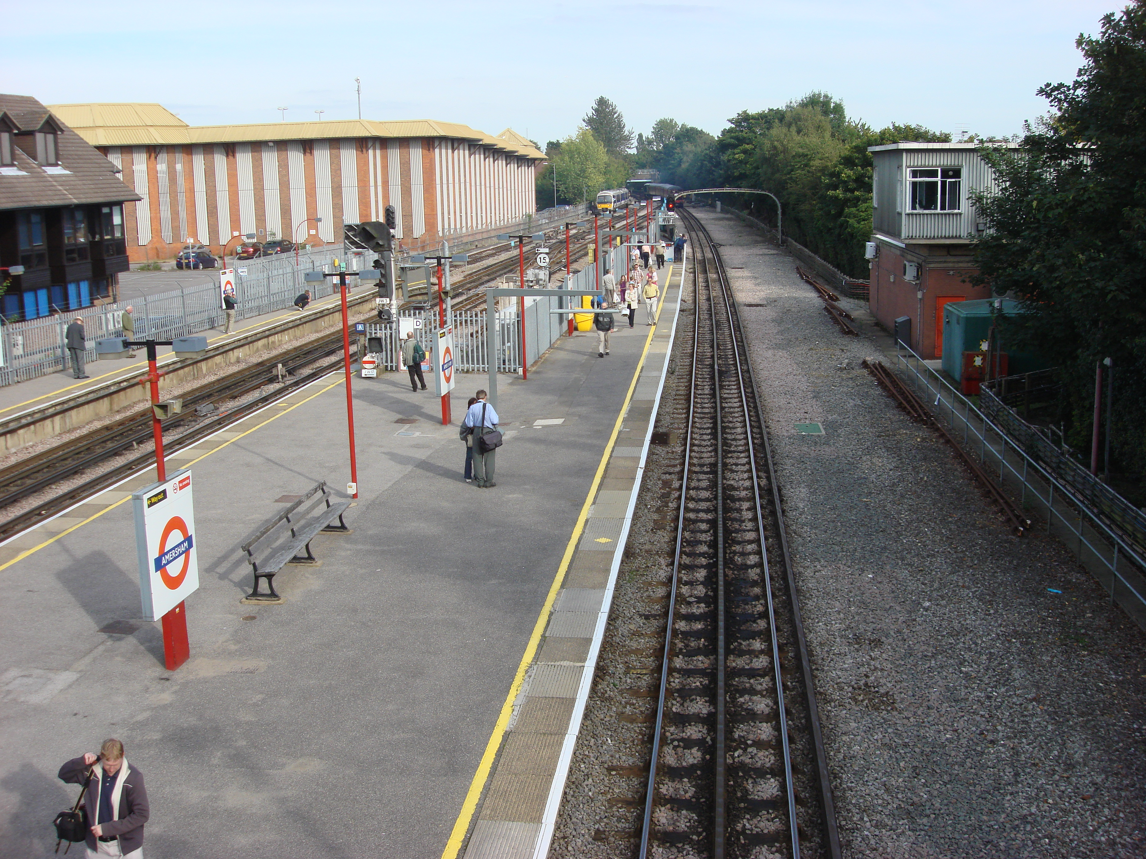 Amersham tube station, platforms from footbridge